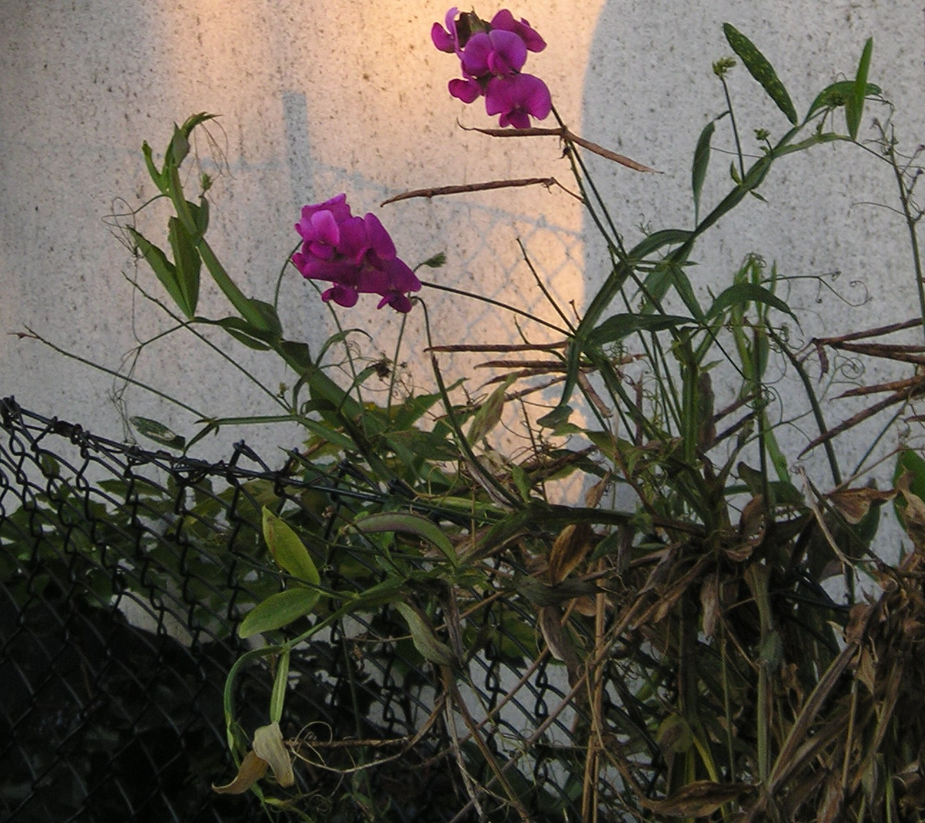 Sweet pea (Lathyrus odoratus) at chain-link fencing.